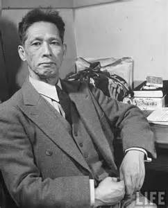 Suzuki Teiichi